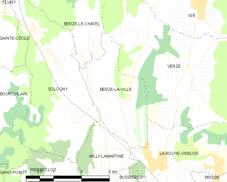 Map of French municipality